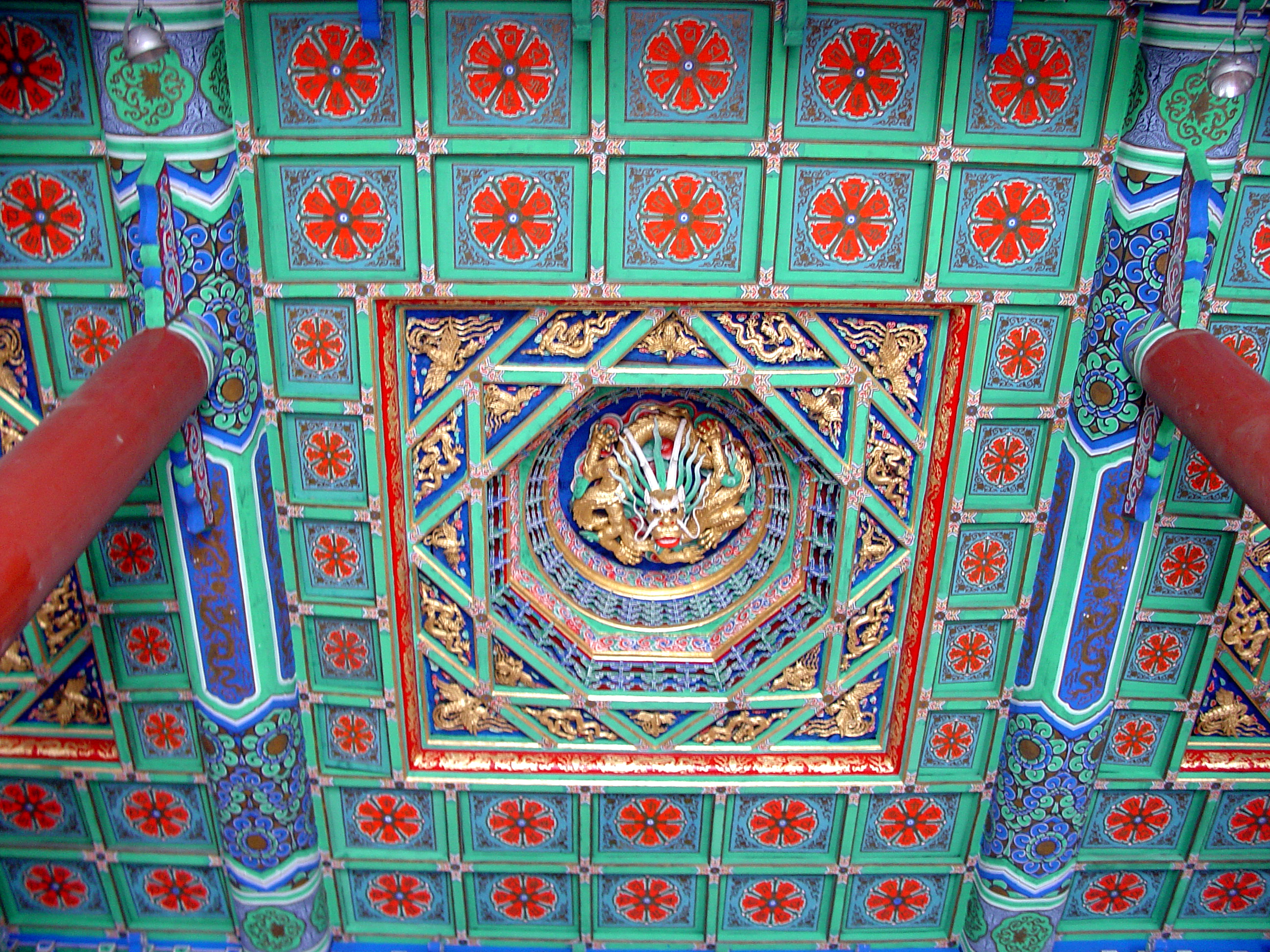 Ceiling. Bai Ta Si (Miaoying Temple), Beijing